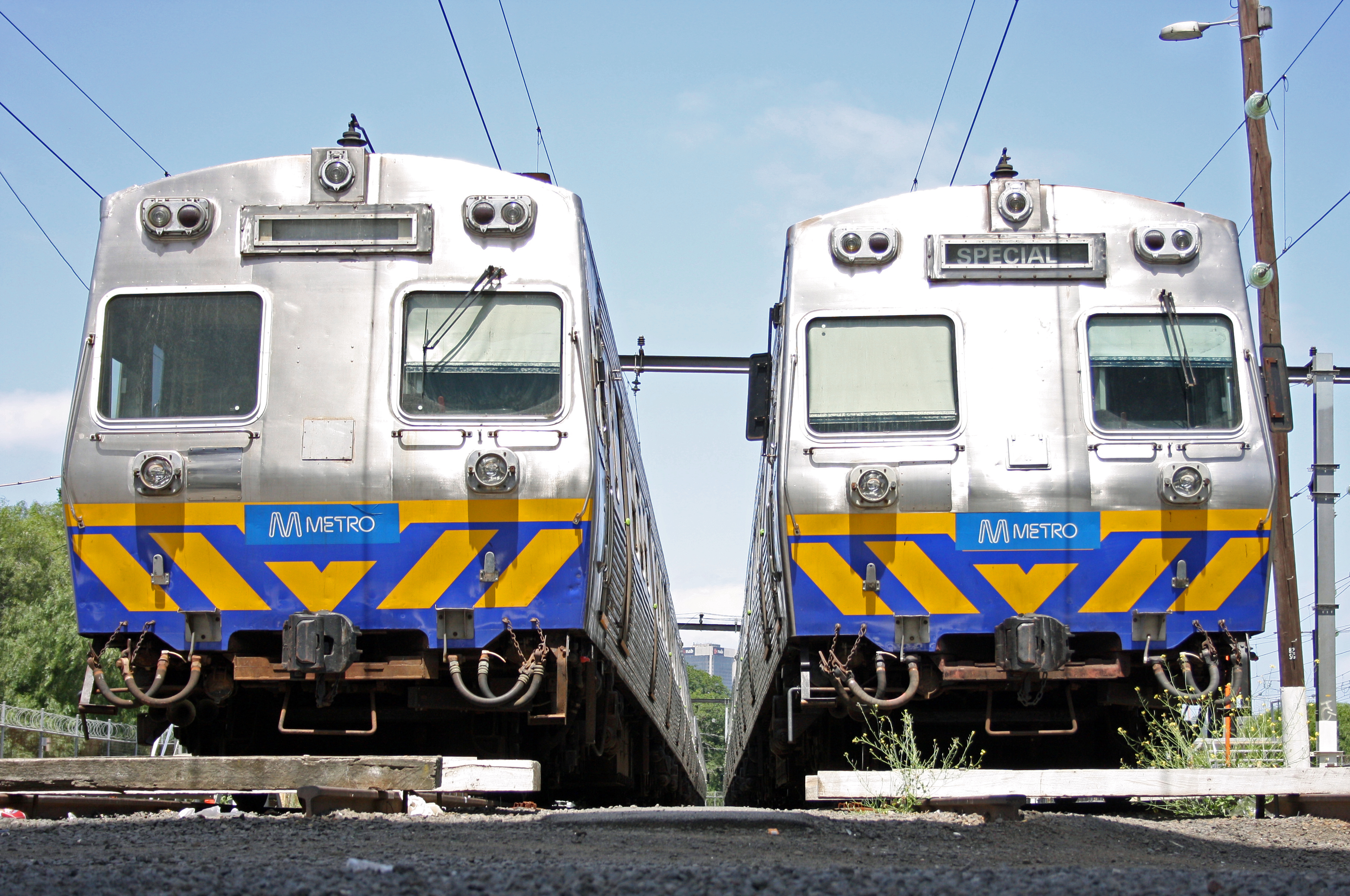 Hitachis 282M (99M) & 298M (178M) stabled at North Melb now with Metro decals.